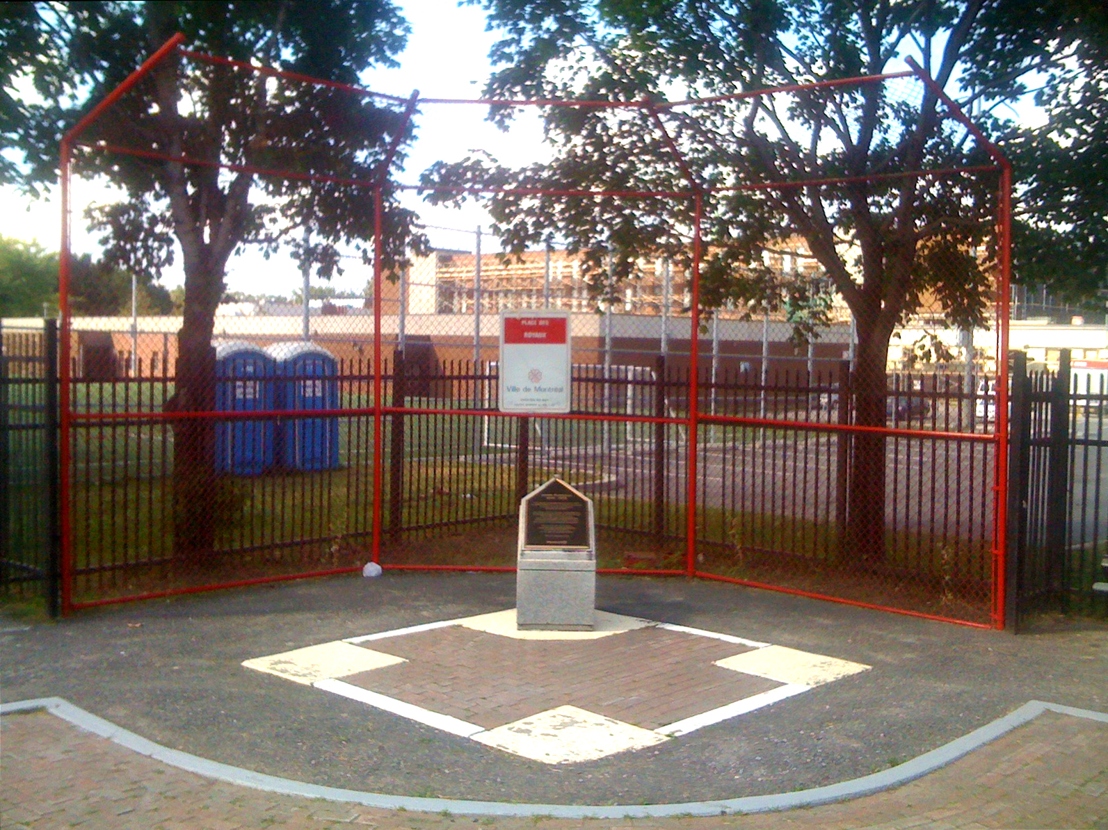 Place des Royaux in Montreal, Quebec, Canada, dedicated to Jackie Robinson, former Montreal Royals (Royaux de Montréal) player. At the site of Delorimier Stadium (Delorimier Downs).